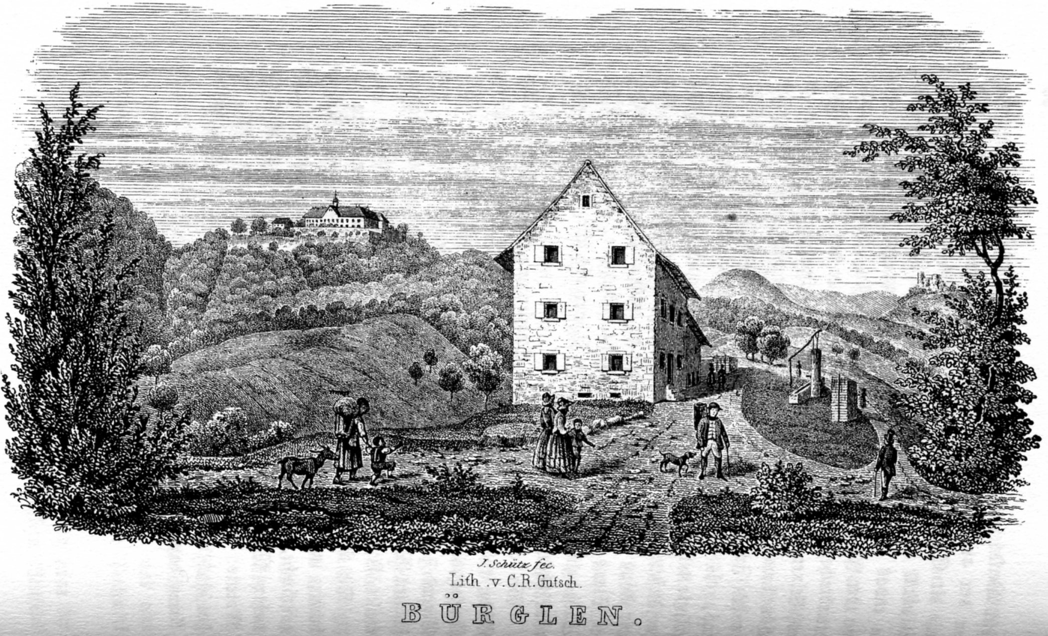 View from the saddle called "Johannisbreite" on the mansion "Schloss Bürgeln" (left) and the ruins of "Sausenburg" castle (right); Lithograph about 1840